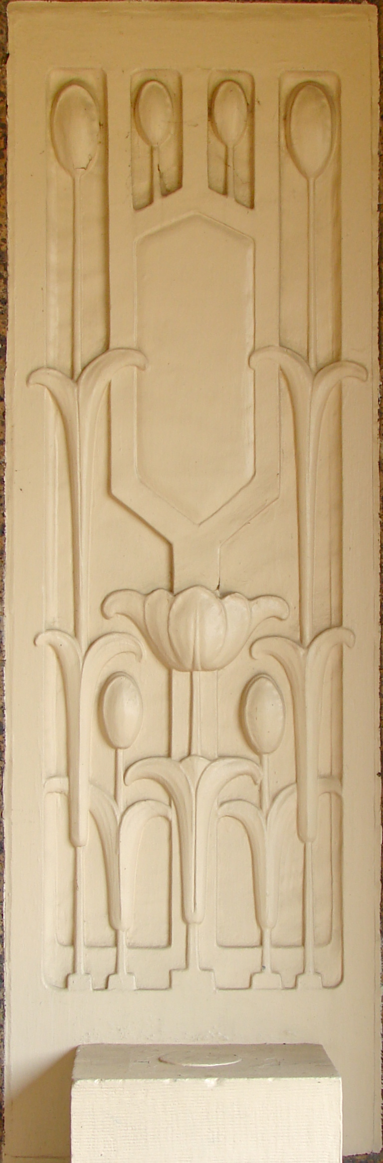 Carved stone inset into brick wall with tulip motif at Denkmann-Hauberg House on the NRHP since December 26, 1972. At 1300 24th St., Rock Island, Illinois. Prairie School style home designed by Robert C. Spencer. Home to philanthropists John and Susanne (Denkmann) Hauberg